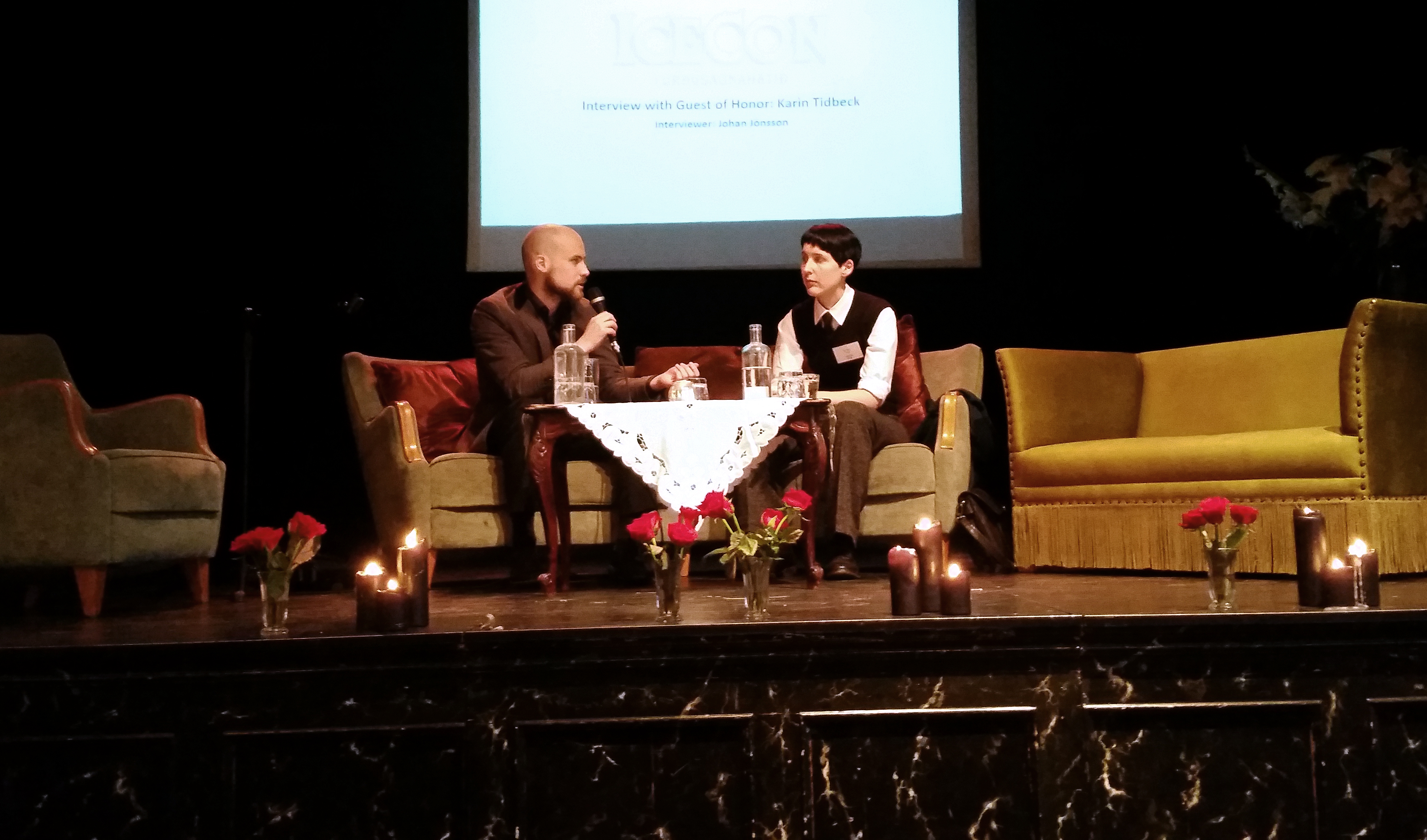 Icecon 2016. Johan Jönsson and Karin Tidbeck.